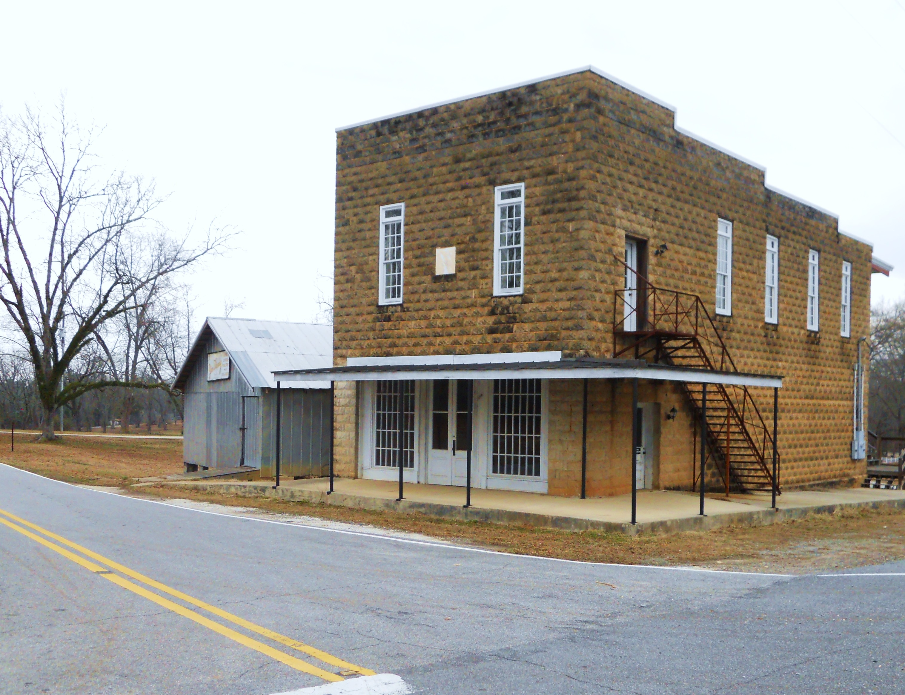 This is a photograph of Daviston, Alabama.